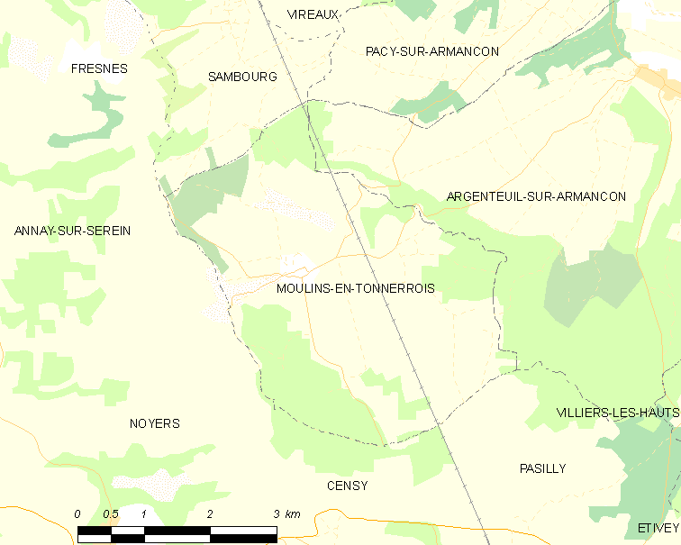 Map of French municipality Moulins-en-Tonnerrois